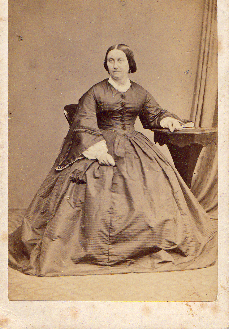 Photograph of Alice Smith (born c. 1817 Whitby, North Riding of Yorkshire died 1893). Mother of Rev Thomas Thistle (1853 -1936) and Hannah Elizabeth Vowles nee Thistle (1842-1903)